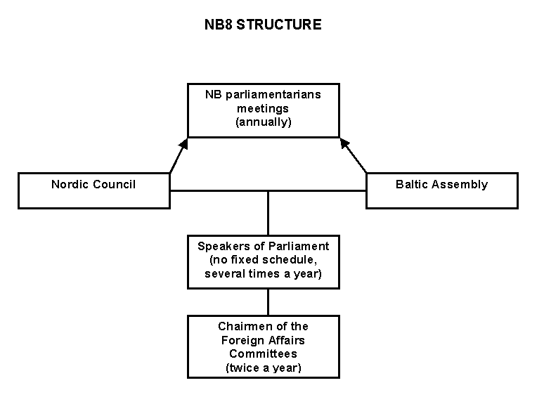 The structure of the cooperation of the NB8 (Nord Baltic Eight)